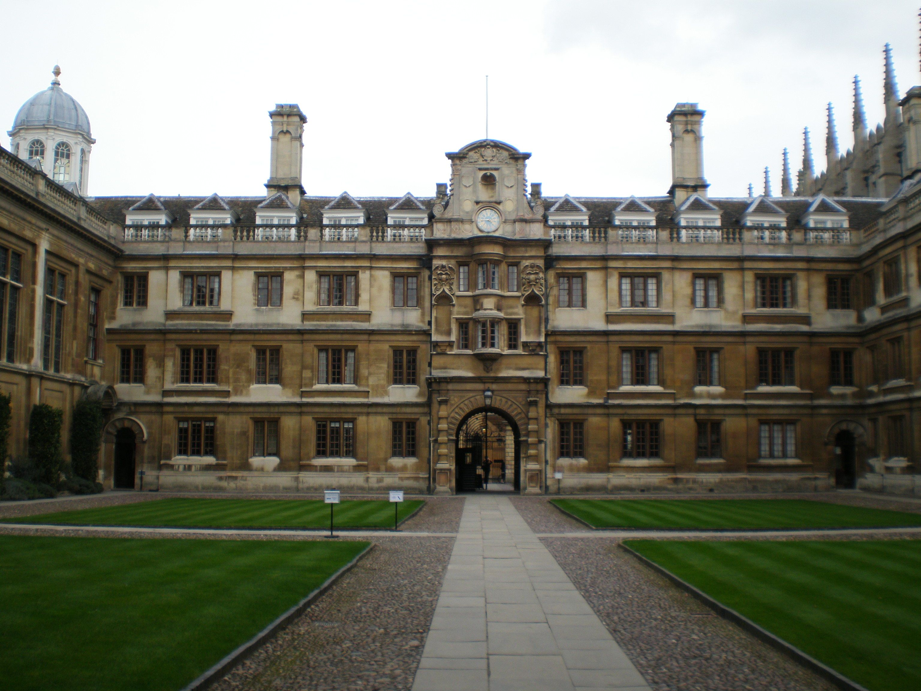 Clare College, Cambridge